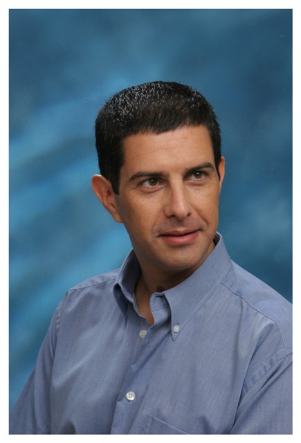 Picture of Eitan Atia